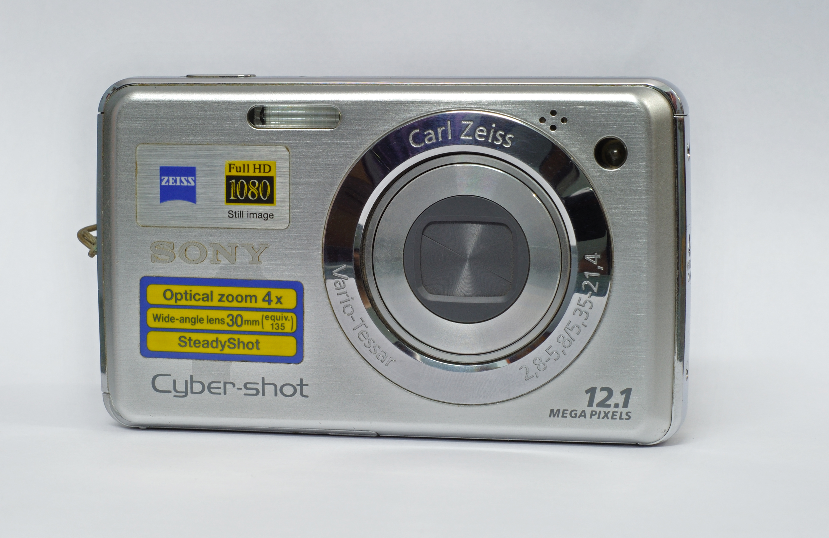 Sony Cybershot DSC W210, Point And Shoot Digital Camera from Sony